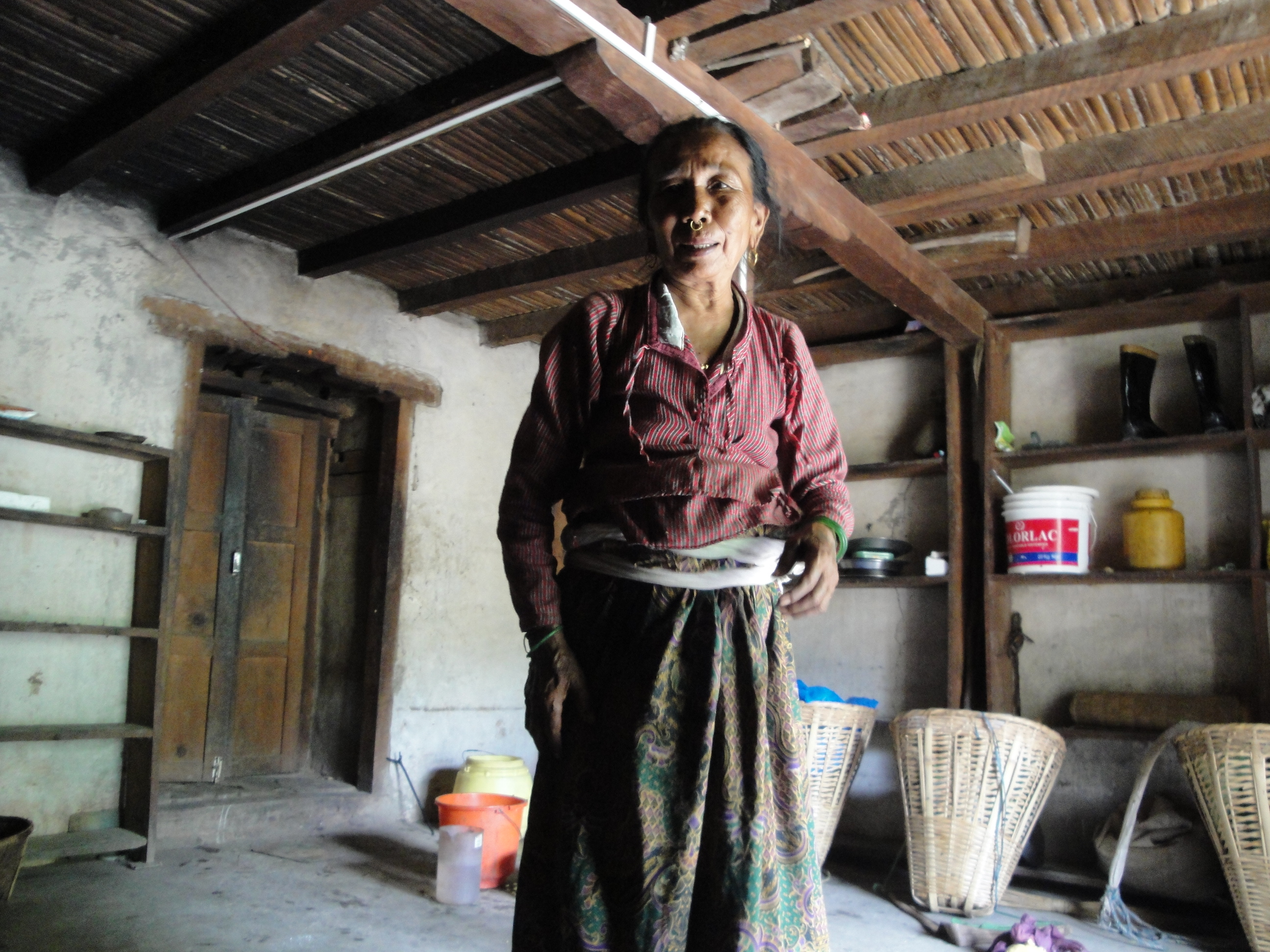 A tamang woman in Ramechhap District in Nepal